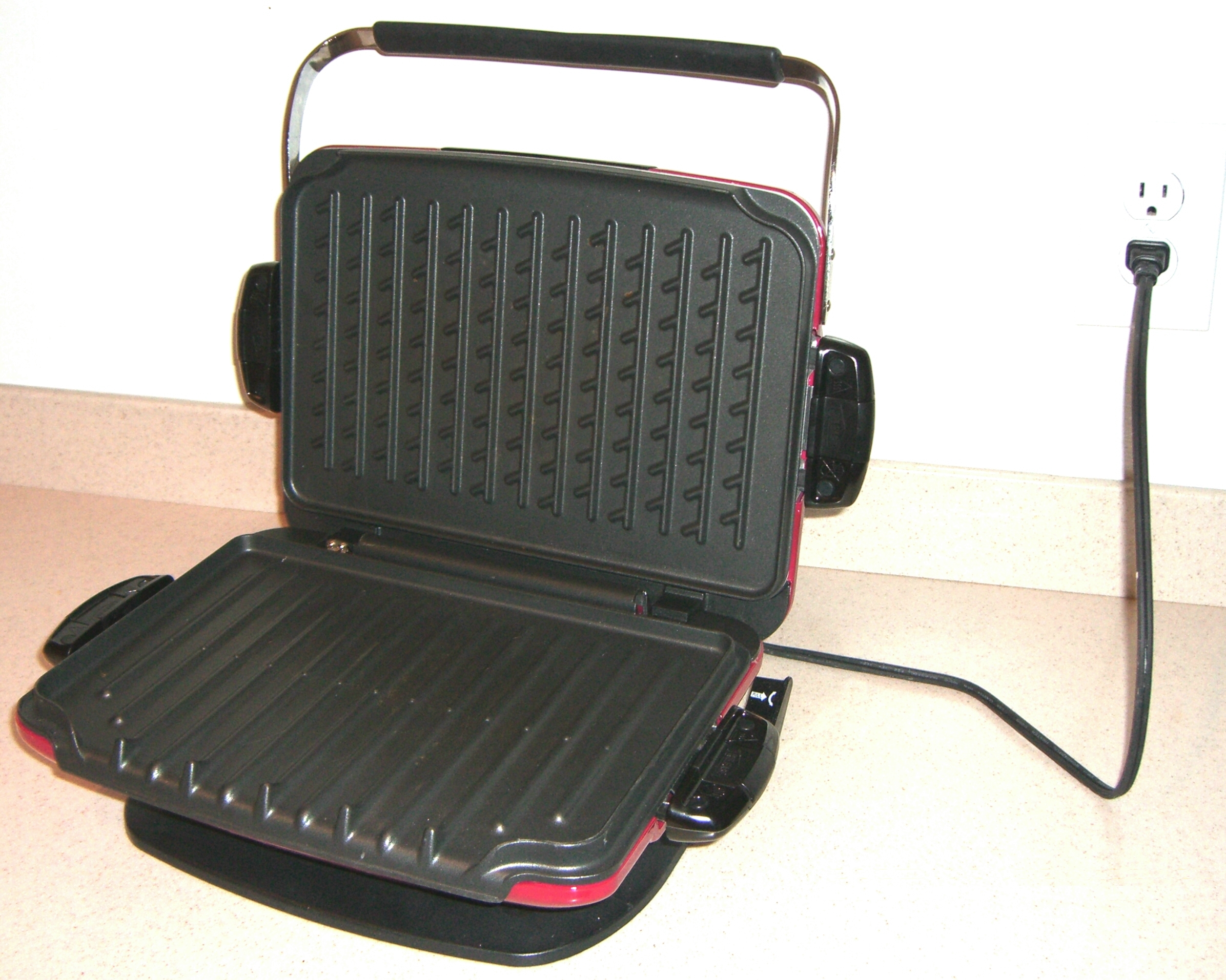 Photo of George Foreman Grill